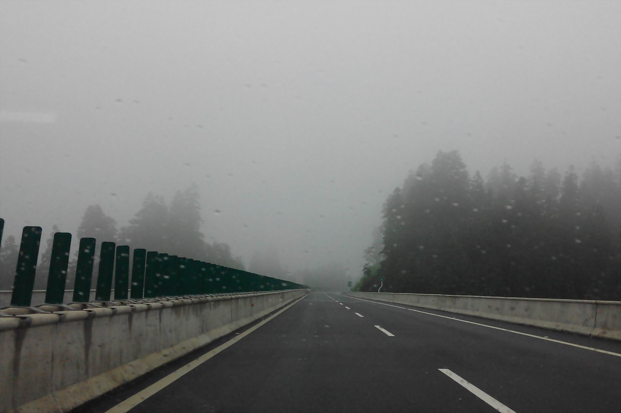 Guizhou Provincial Expressway S25(Yanjiang-Rongjiang Expwy) Zhenyuan Section